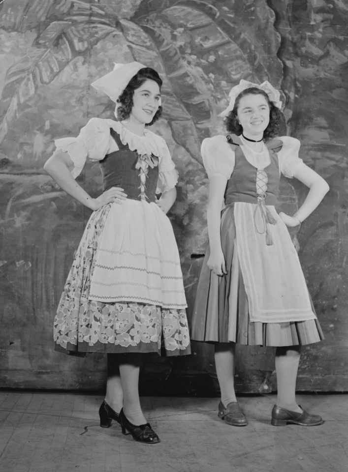 Two girls in traditional costume, take part in the recording of "Radio Small World" broadcast by radio station CKAC of Montreal.